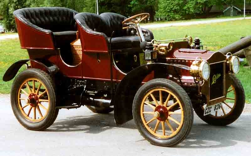 Cadillac Model E Touring 4-Seater 1905 - the Model E was only sold as a two-seater; this was likely rebodied. It also does not have the correct paint color for a '05 Cadillac.